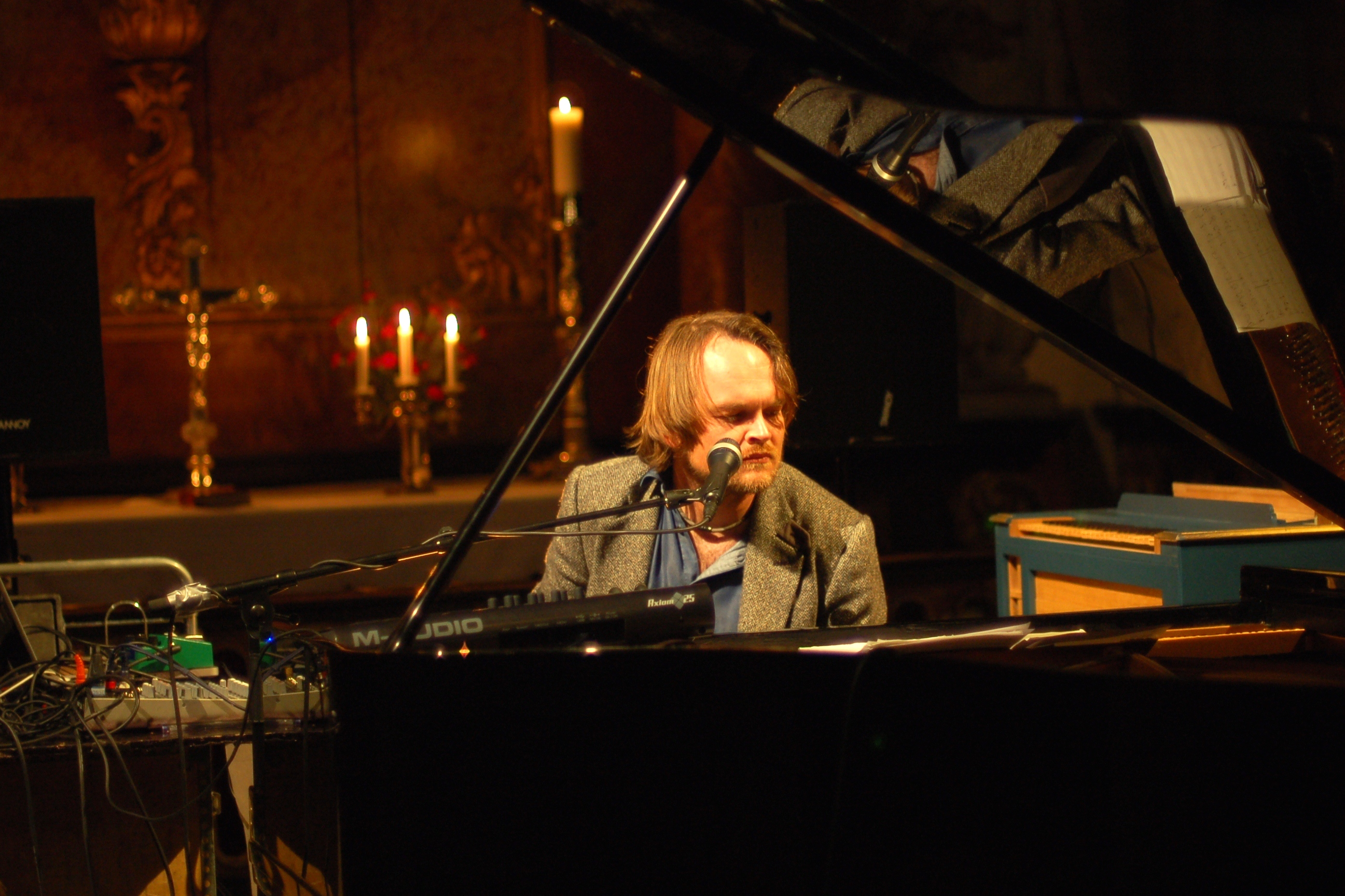 Morten Qvenild- Solo - "Midnight concert", Kongsberg church 2011. Photo: Thomas Bjørndahl